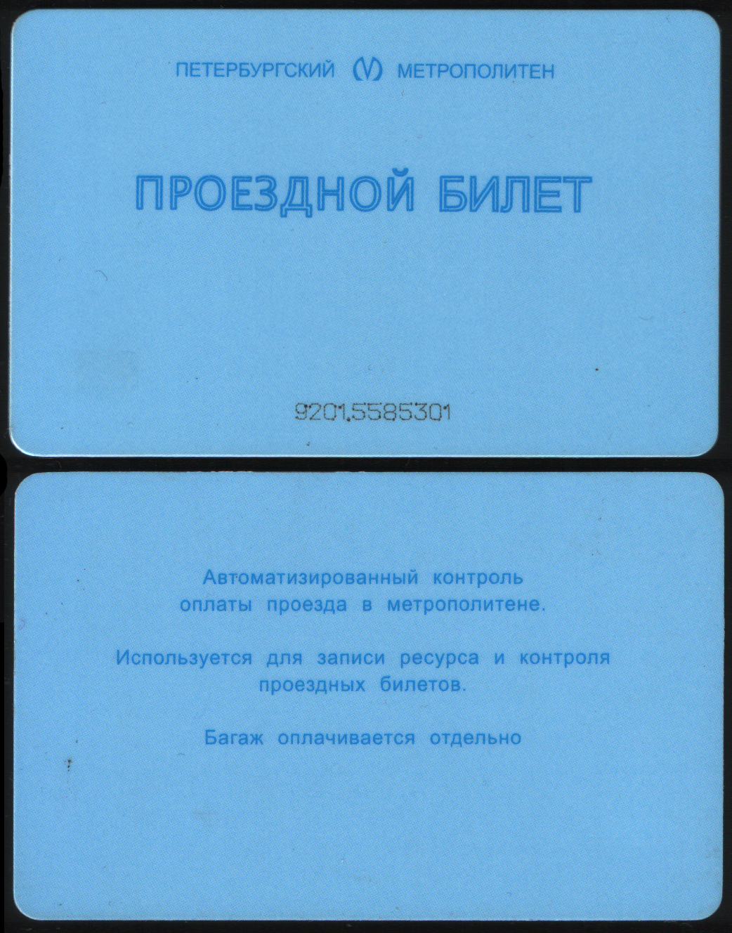 The ticket of the Petersburg Metro